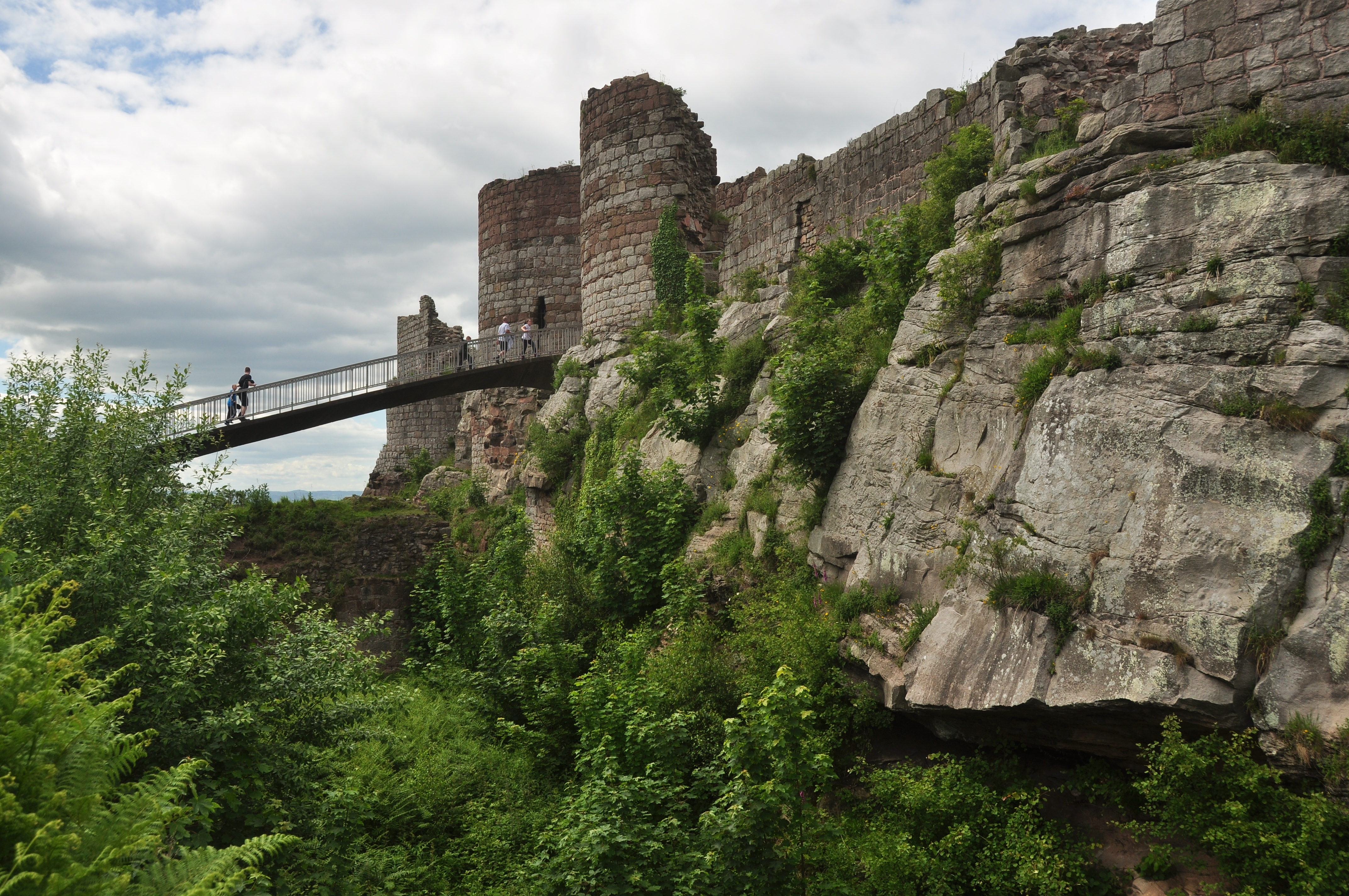 Beeston Castle